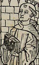 Valencia: Portrait of Francesc Eiximenis extrait of the incunable edition of the Regiment de la Cosa Pública (Valencia, Cristòfor Cofman, 1499)